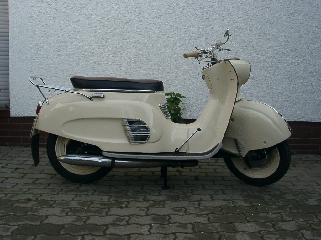 WFM OSA scooter.